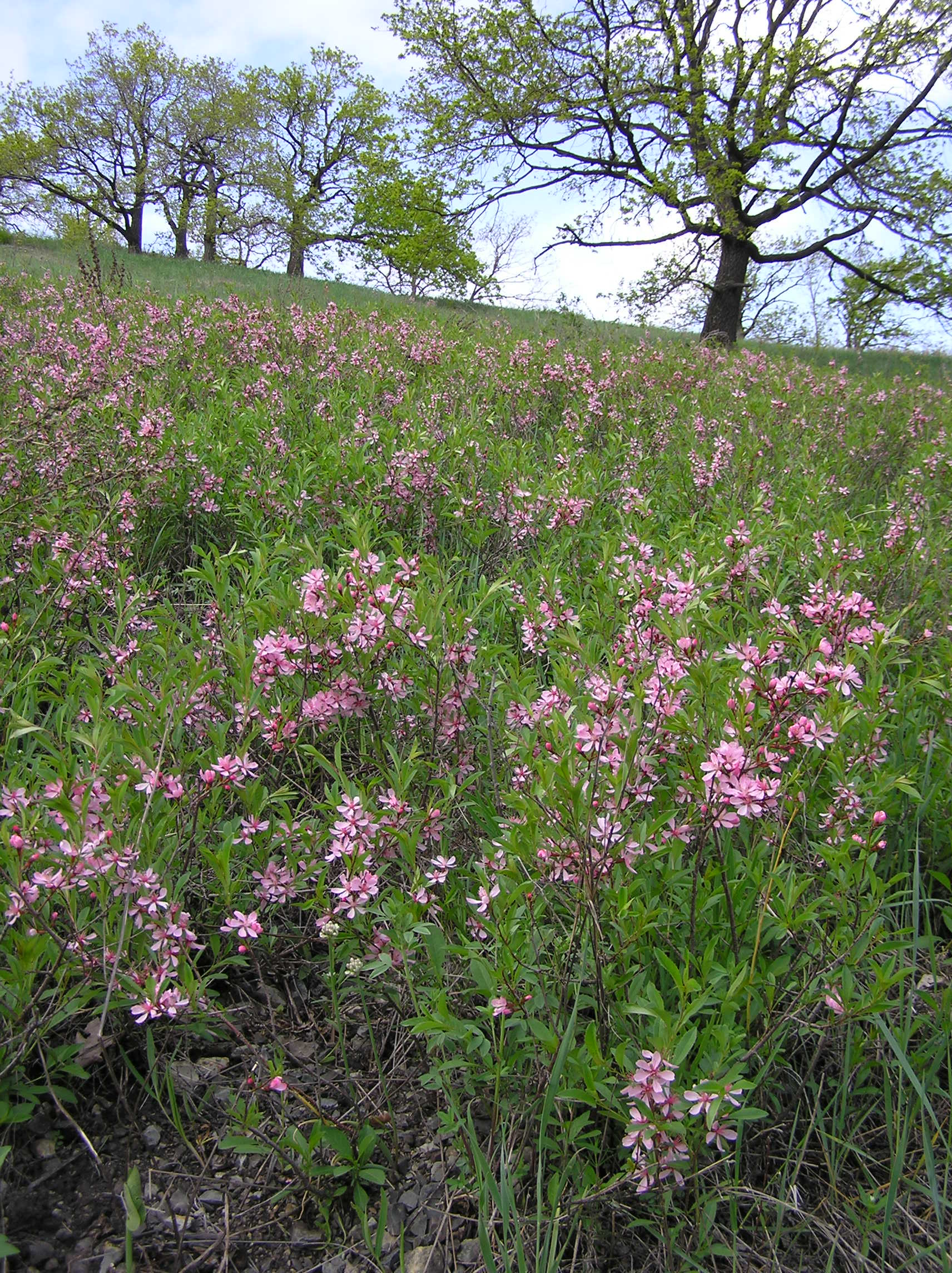 Prunus tenella (Batsch.; syn.: Amygdalus nana L., Prunus nana L.) in bloom. Quercus robur (L.) trees are seen in the background. Habitat: dry meadow on a south facing slope. Vicinity of Saratov city, Russia.